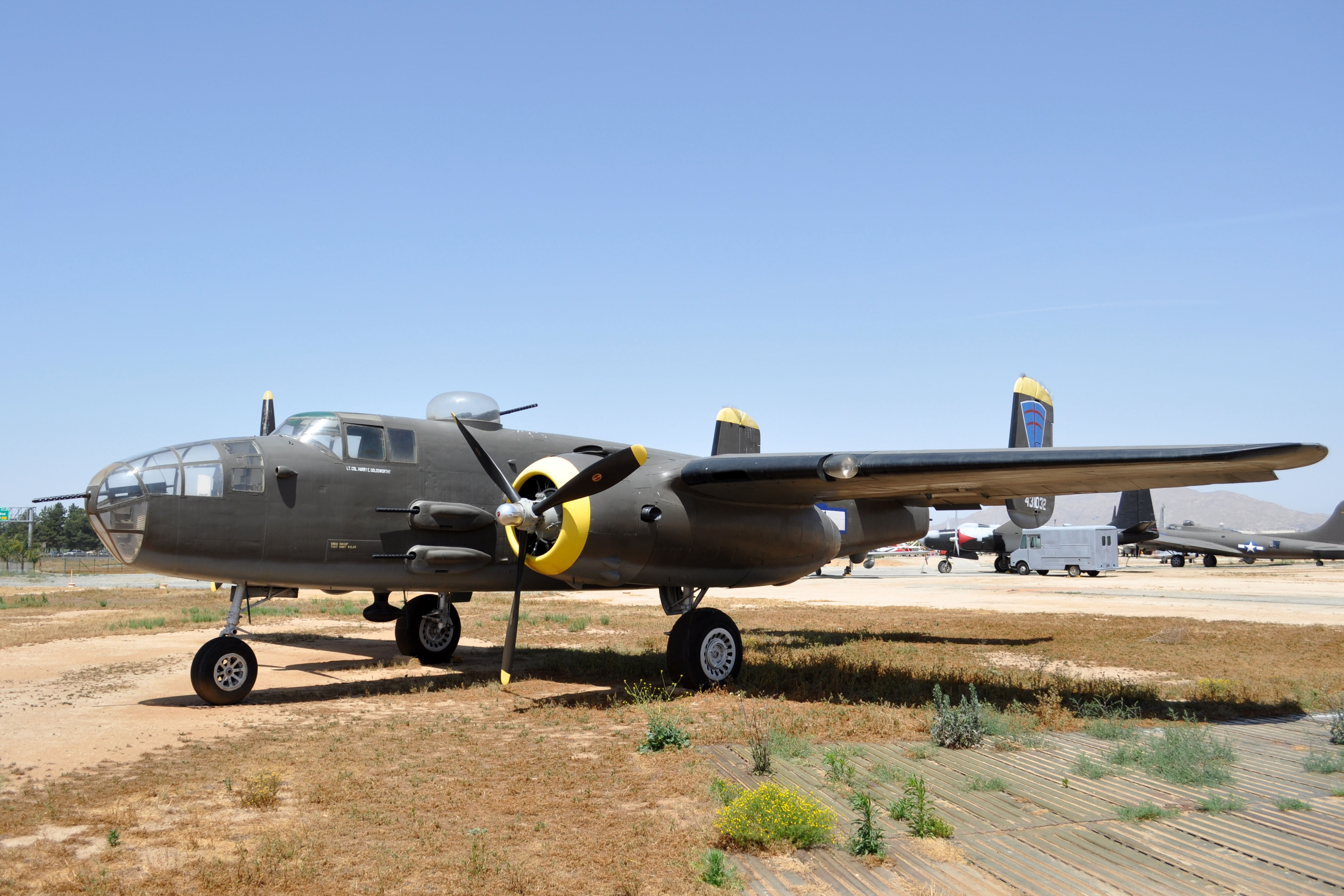 According to the Air Force Historical Research Agency (AFHRA/RSA), Maxwell AFB, AL, the museum's B-25J has the following history: B-25J, s/n 44-31032 Manufactured by North American Aviation, Kansas City KS and delivered to the USAAF on 29 Mar 1945. Mar 1945 - To 4168th AAF Base Unit (Air Technical Service Command), South Plains AAF TX (storage) Jul 1947 - To 4141st AF Base Unit (Air Materiel Command), Pyote AFB TX (storage) Nov 1948 - To 3575th Pilot Training Wing (Air Training Command), Enid, later Vance, AFB OK (to TB-25J) Mar 1951 - To 3700th Military Training Wing (ATC), Lackland AFB TX Apr 1951 - To 3535th Military Training Wing (ATC), Mather AFB CA Sep 1952 - To 3575th Pilot Training Wing (ATC), Vance AFB Sun 1954 - To TB-25N Sep 1957 - To Arizona Aircraft Storage Branch (AMC), Davis-Monthan AFB AZ Apr 1958 - Dropped from inventory as surplus